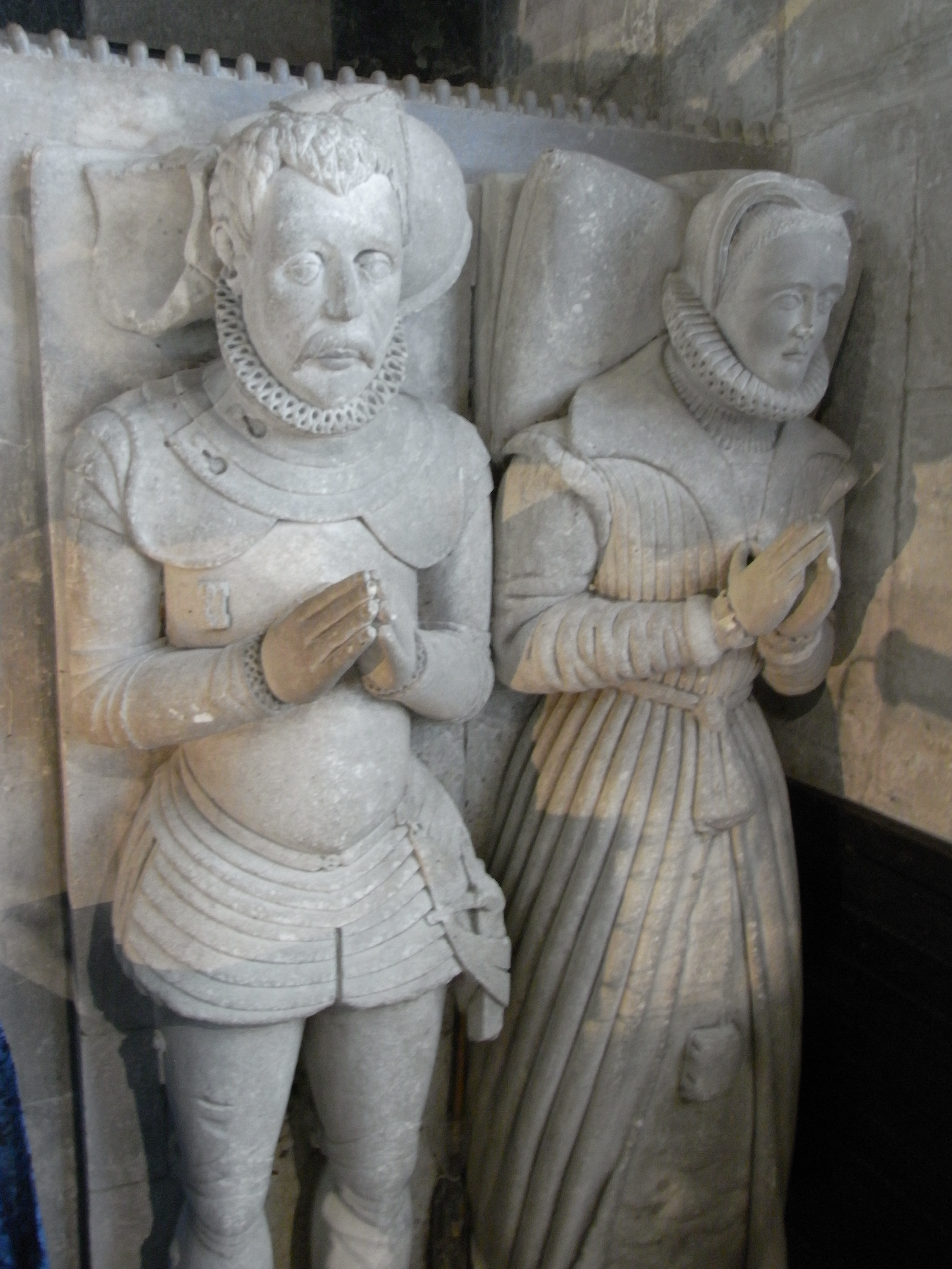 Tomb with effigies of Katherine Denys(d.1584) and her 3rd. husband Roger Lygon. Katherine was a daughter of Sir William Denys(d.1535) of Dyrham, Glos., and widow and heiress of Sir Edmund II Tame(d.1544)